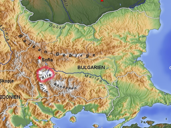 location of Rila mountain in Bulgaria